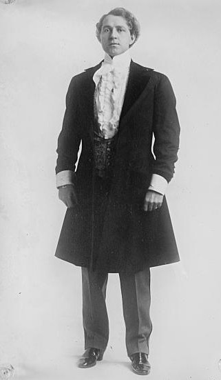 Dustin Farnum, American actor, singer and dancer